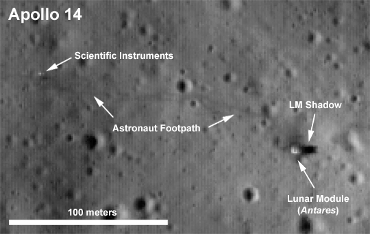 Image of the Apollo 14 landing site taken by the Lunar Reconnaissance Orbiter, labeled to indicate equipment, shadows and astronaut footpath. The lunar lander Antares is at the right, scientific equipment at the left with footpath tracking between them. The image width is about 250 metres.